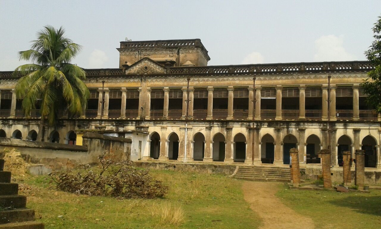 Sir N R Chatterjee Residence - Nabogram - Close to to Burdwan District